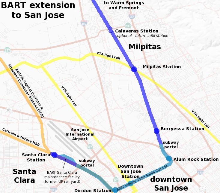 Map of the planned Bay Area Rapid Transit extension to San Jose. The background map of Silicon Valley was generated by the USGS National Map. The route and plans are based on data from VTA publications including the "Fact sheet: BART to Silicon Valley".